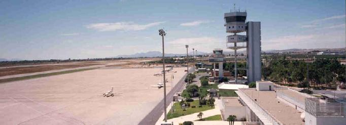 Control Towers (Alicante Airport)